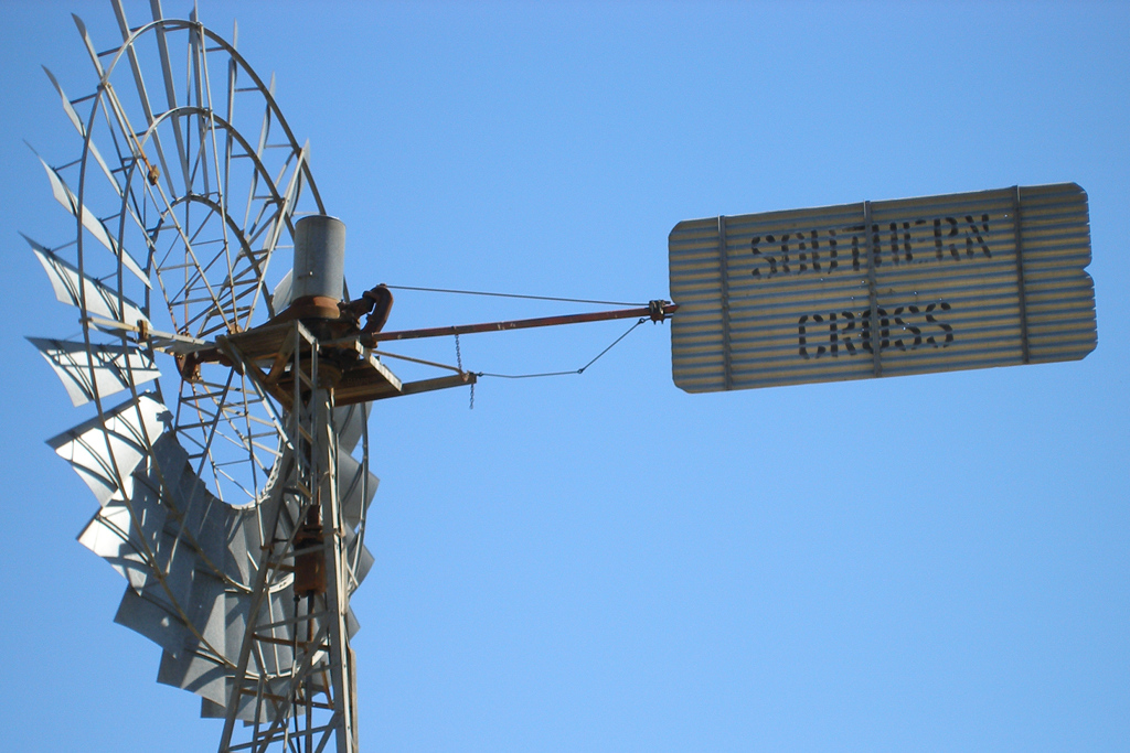 Southern Cross windmill, Barkly Highway, Northern Territory, Australia - windmill made at the Toowoomba Foundry in Queensland, Australia